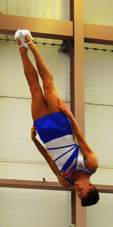 British Trampoline Gymnast Luke Strog